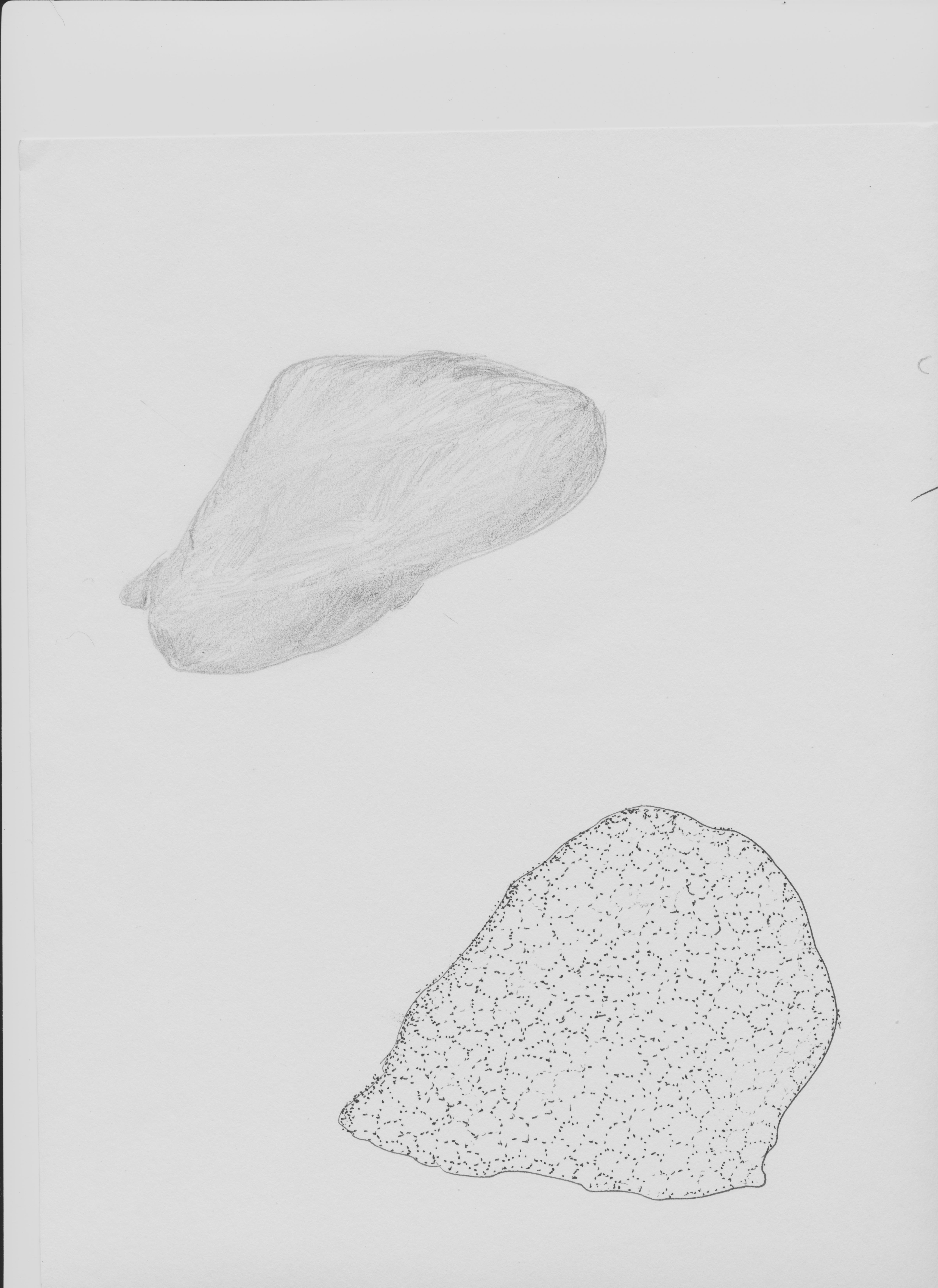 Two pencil sketches of the animal phylum placozoa